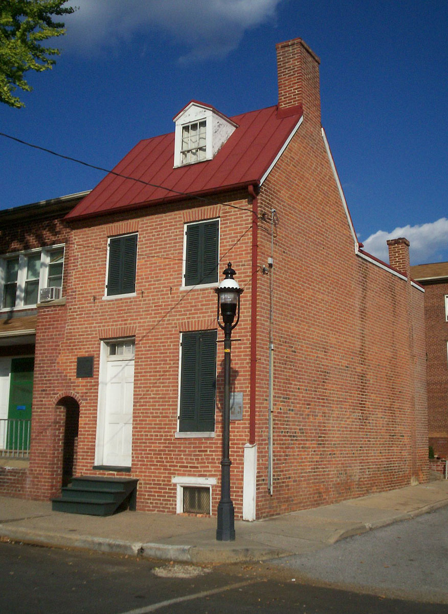 Exterior of the Edgar Allan Poe House and Museum, located at 203 N. Amity St. in Baltimore, Maryland (USA). Poe's bedroom is believed to have been on the third floor.